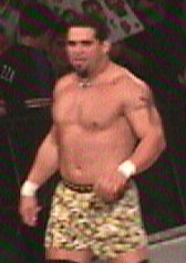 Professional wrestler Mosh in 1999.